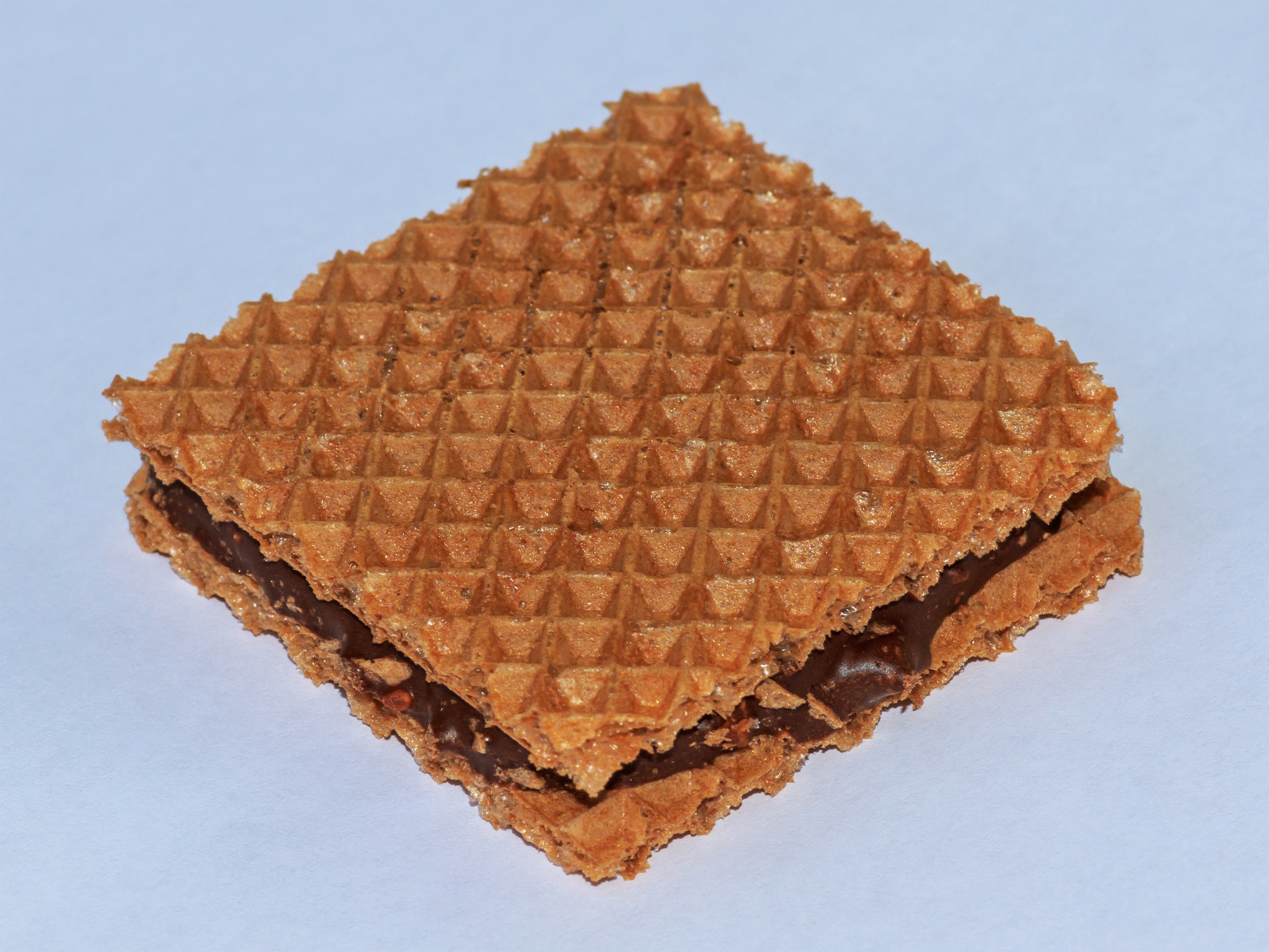 Hanuta is a sweet by Ferrero with hazelnut/chocolate fill